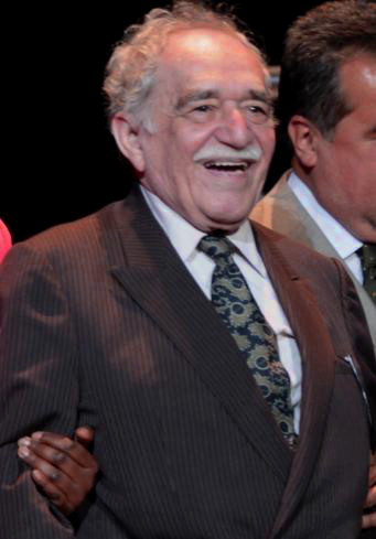 From the original image. Garcia Marquez at Guadalajara